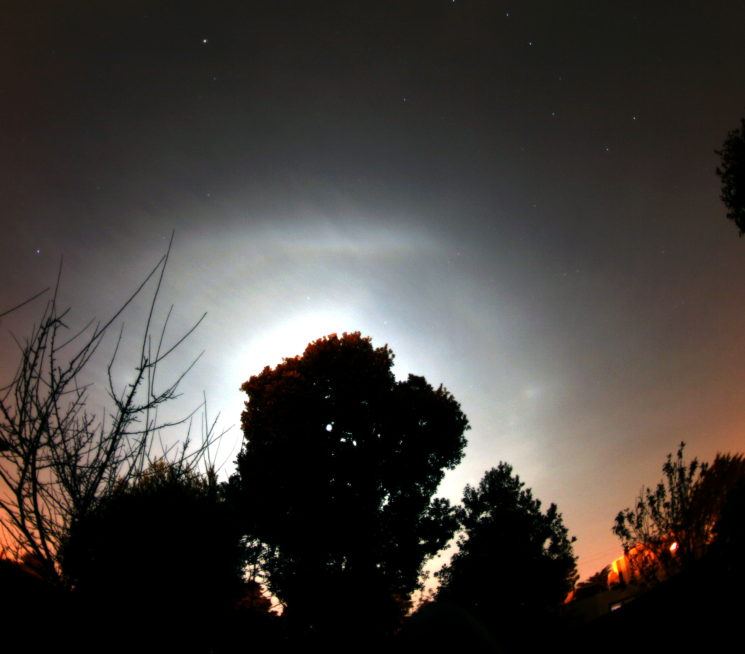 22 degrees halo, Parry arc, UTA and Moon dogs.